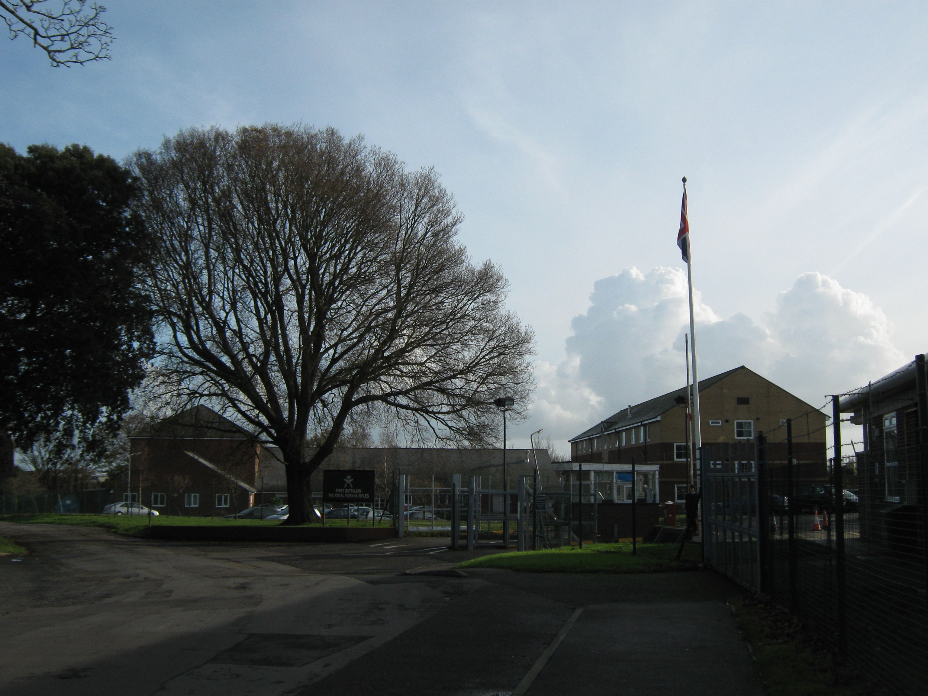 Photograph of the barracks of The First Battalion, Royal Gurkha Rifles